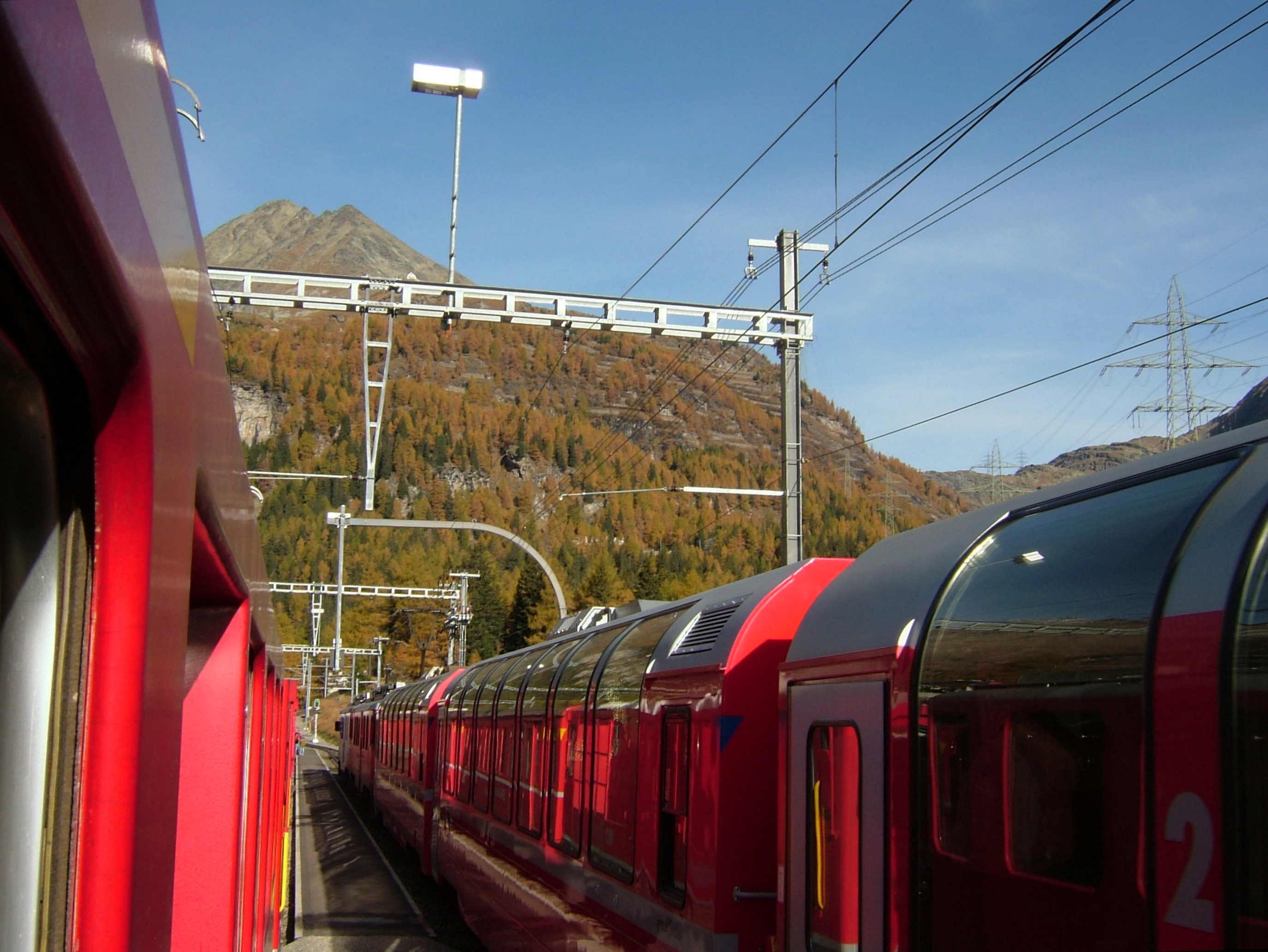 Bernina railwaySouthbound local train between Bernina Pass and Poschiavo at the Cavaglia railway station crossing northbound Bernina Express